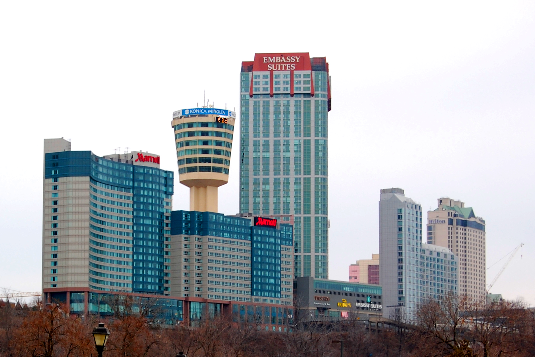 Shot during the TPMG outing to Niagara Falls, Ontario, Canada.